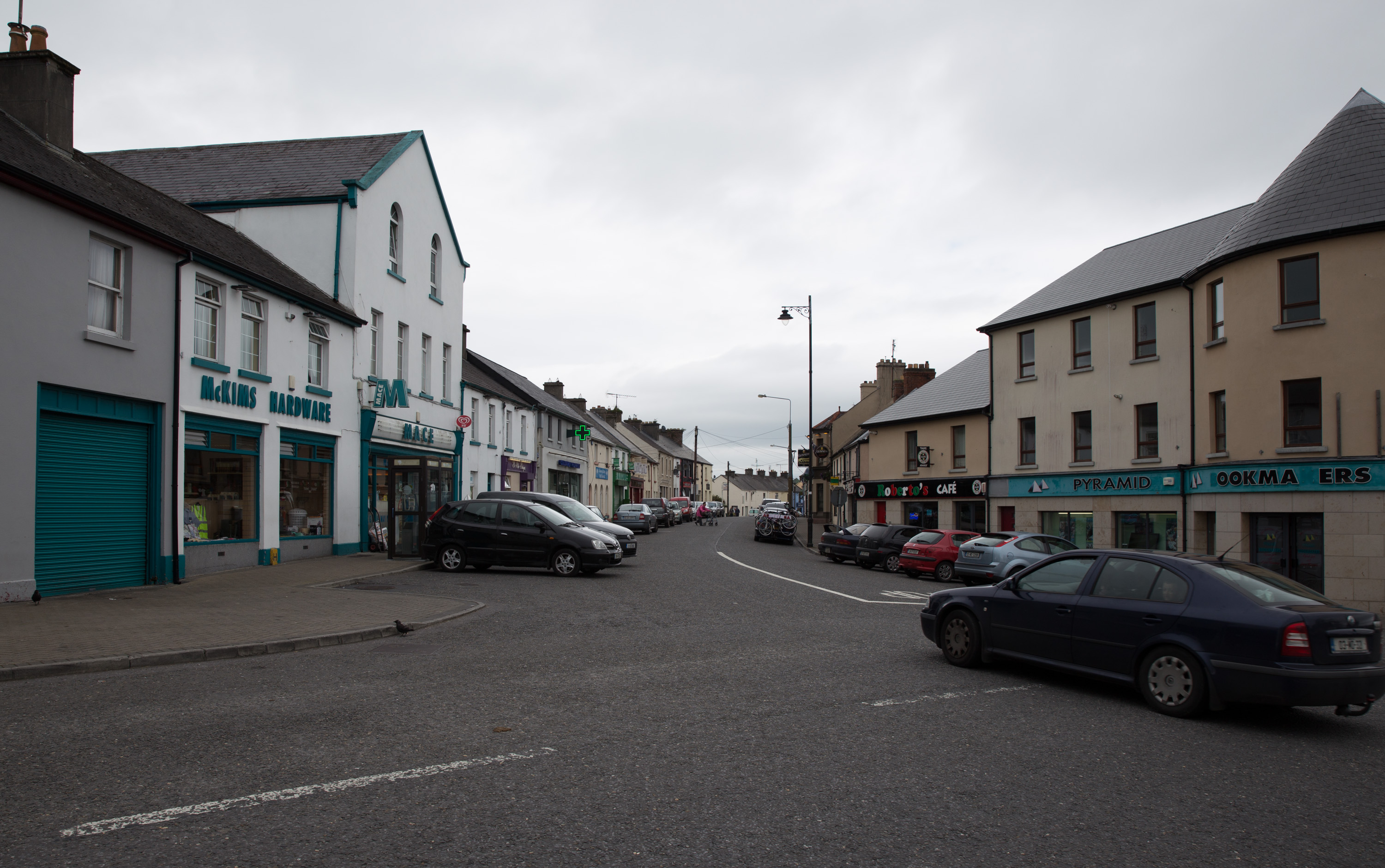 Looking up main street